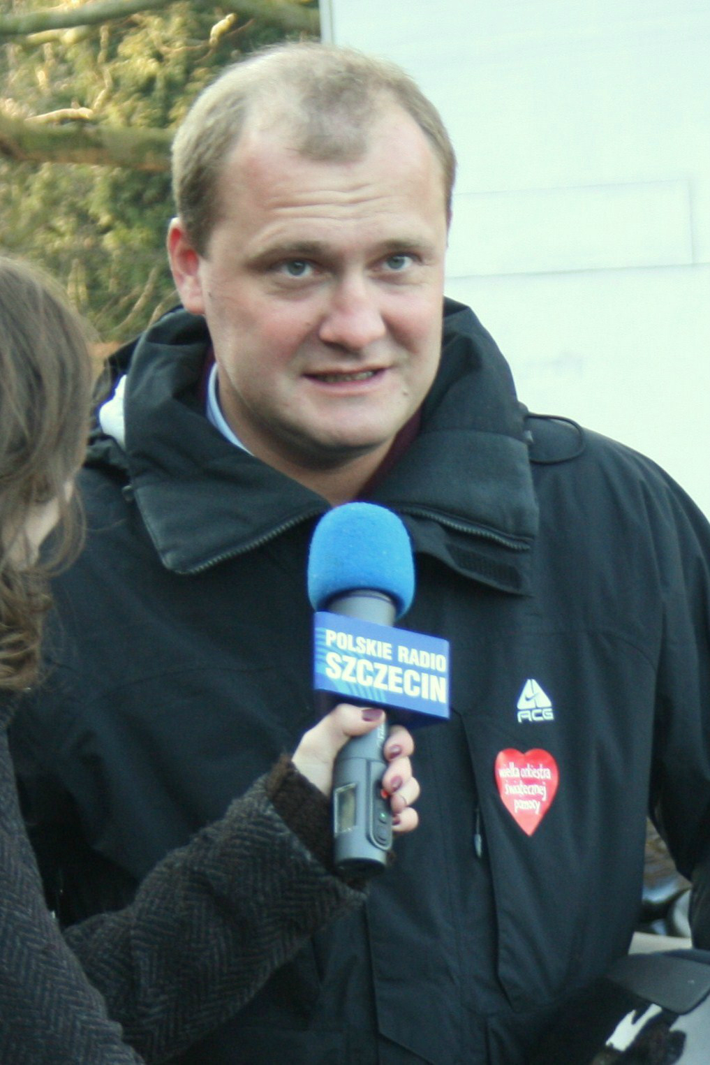 Interview with Piotr Krzystek during The XVI final of "The Great Orchestra of Christmas Charity", 2008.